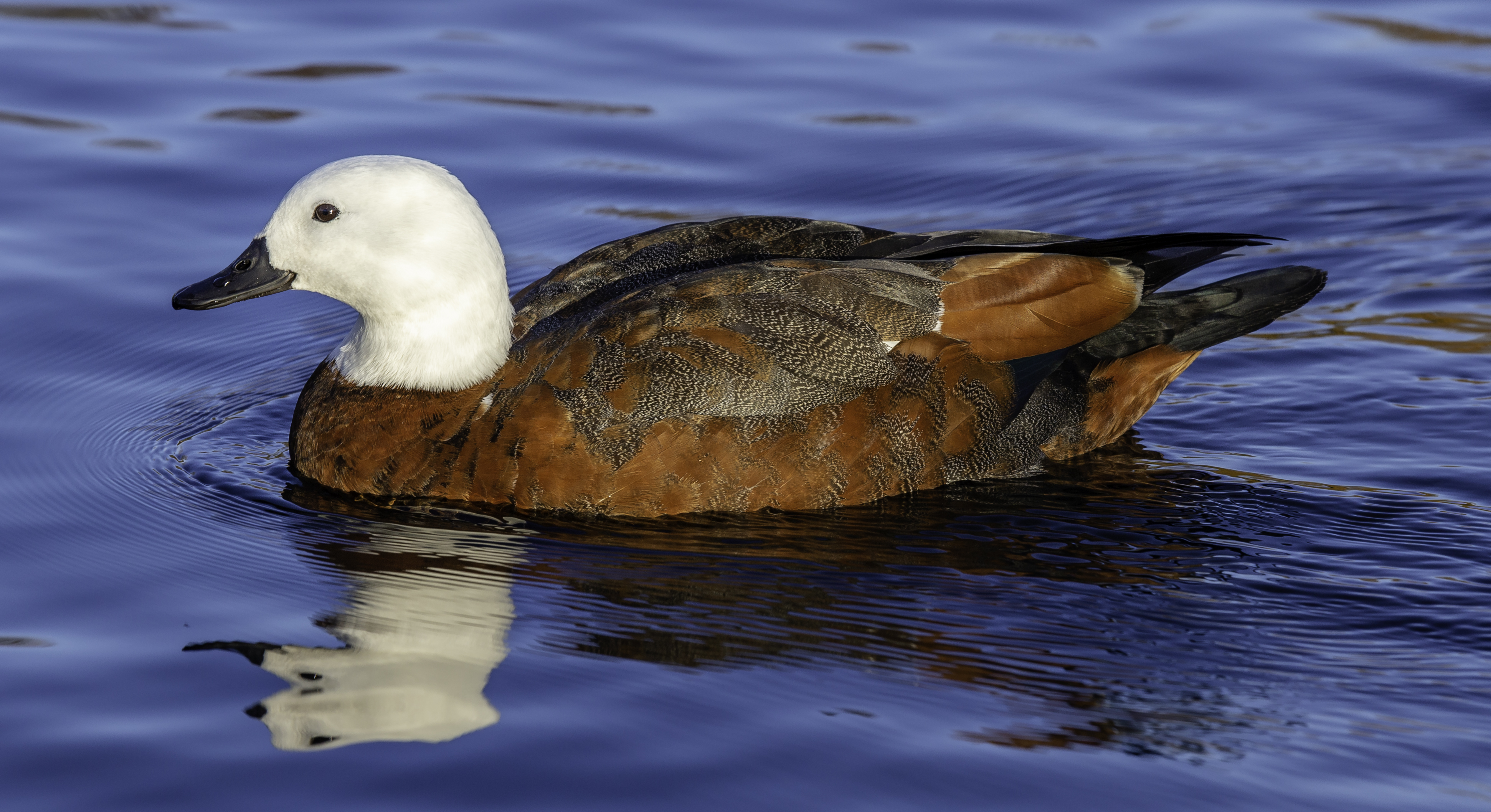 Paradise shelduck (Tadorna variegata), female on Lake Victoria, Christchurch, New Zealand